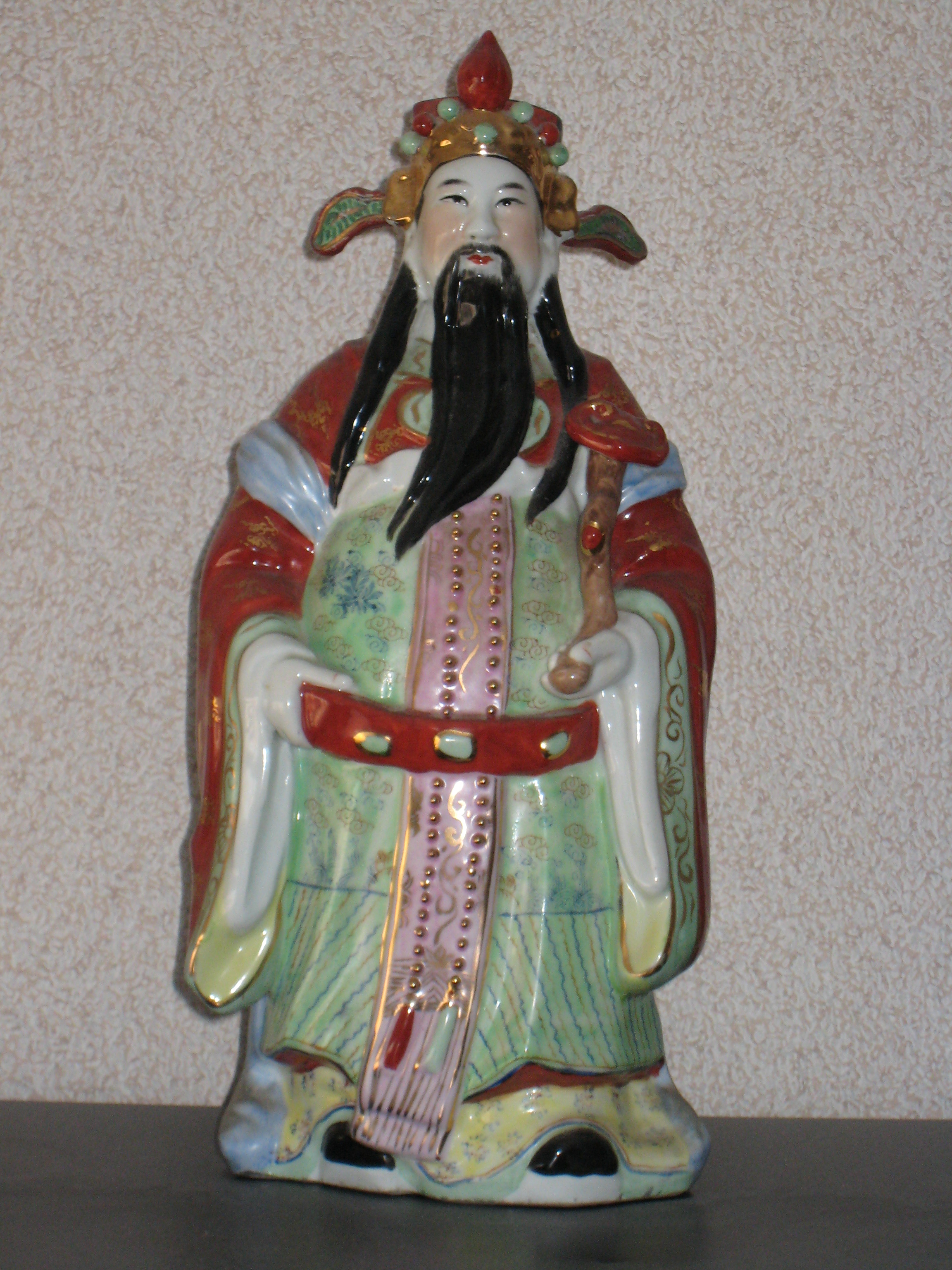 china statue of Luxing